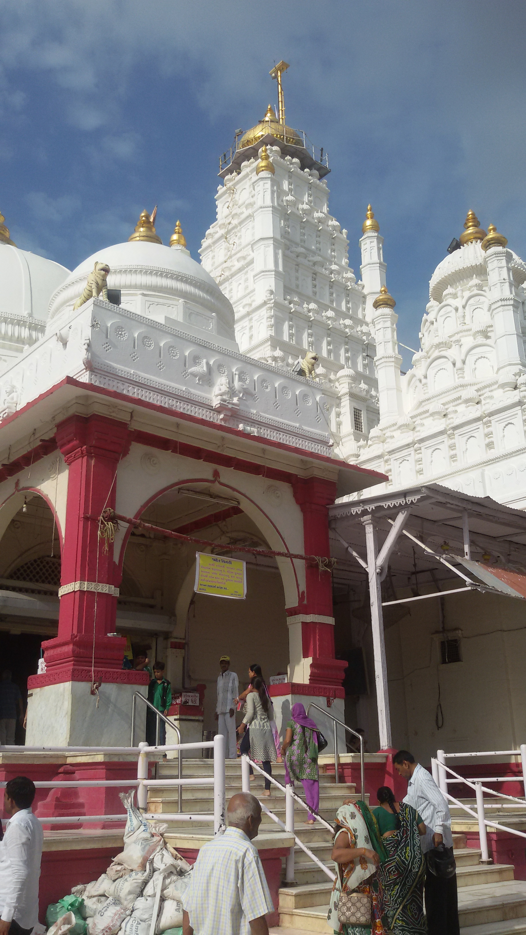 Ranchhodarai Temple, Dakor, Gujarat